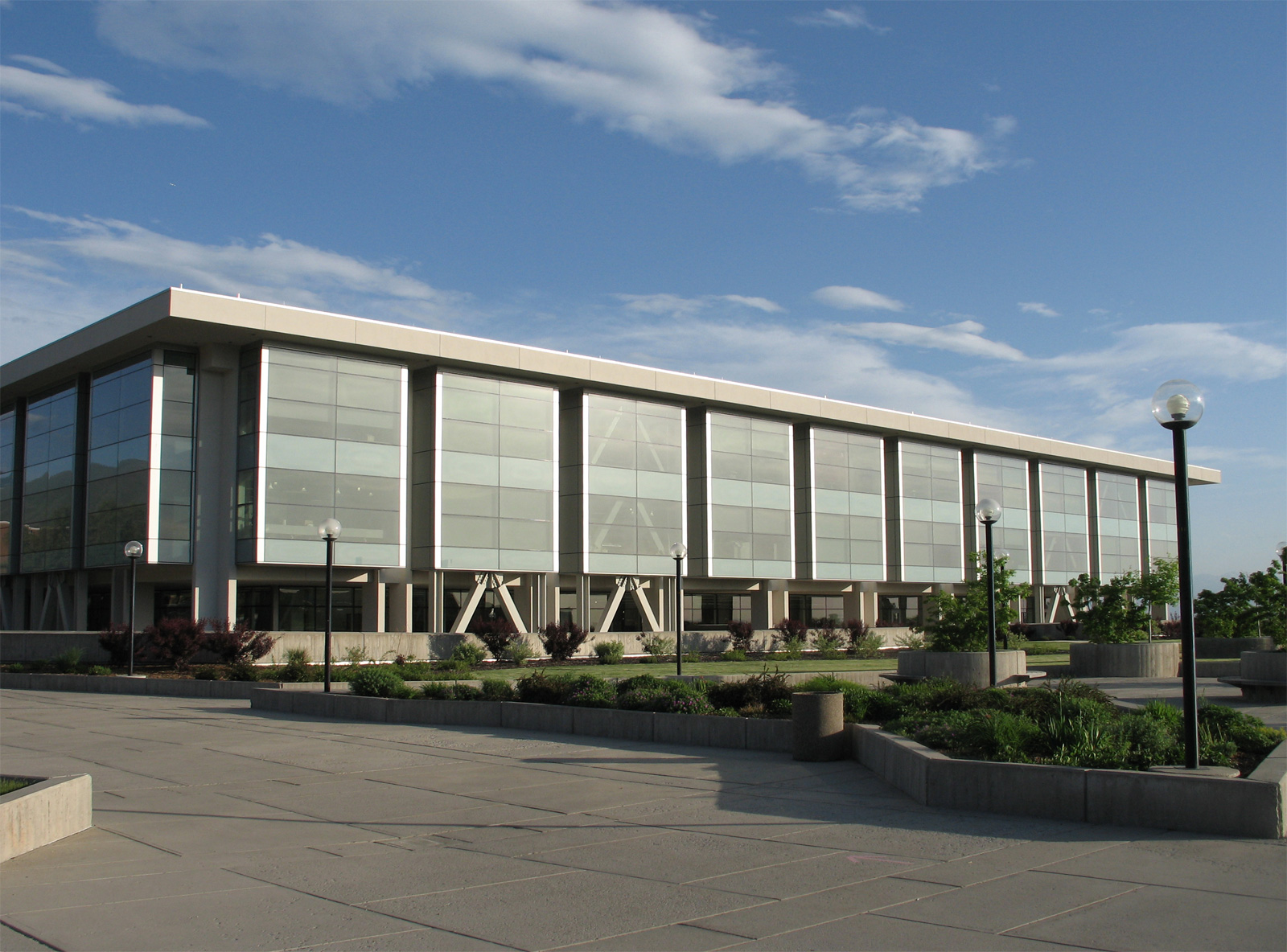 The J. Willard Marriott Library at the University of Utah campus in Salt Lake City, Utah. This shot only includes floors 3 through 5. See Uofu_marriottlibraryfront.jpg for a view of all 5 floors.